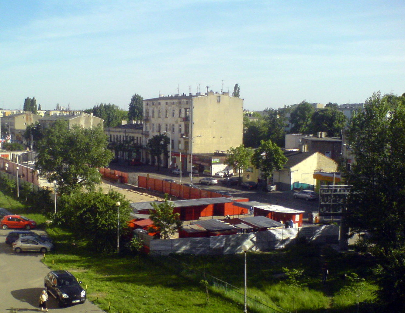 Red Market in Lodz during renovation